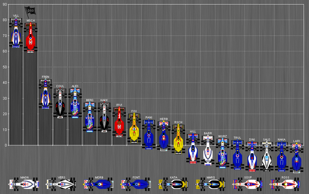 chart of final standings of 1997 Formula One season